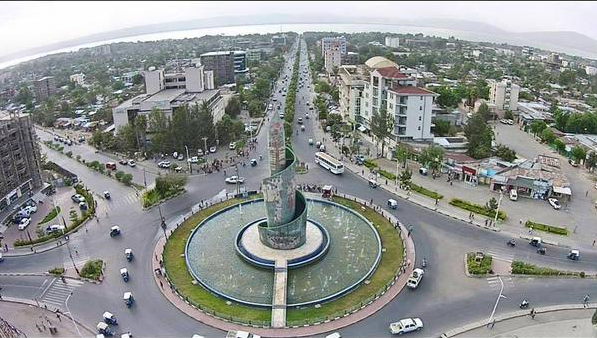 Hawassa in Skye View from Gebriel Church